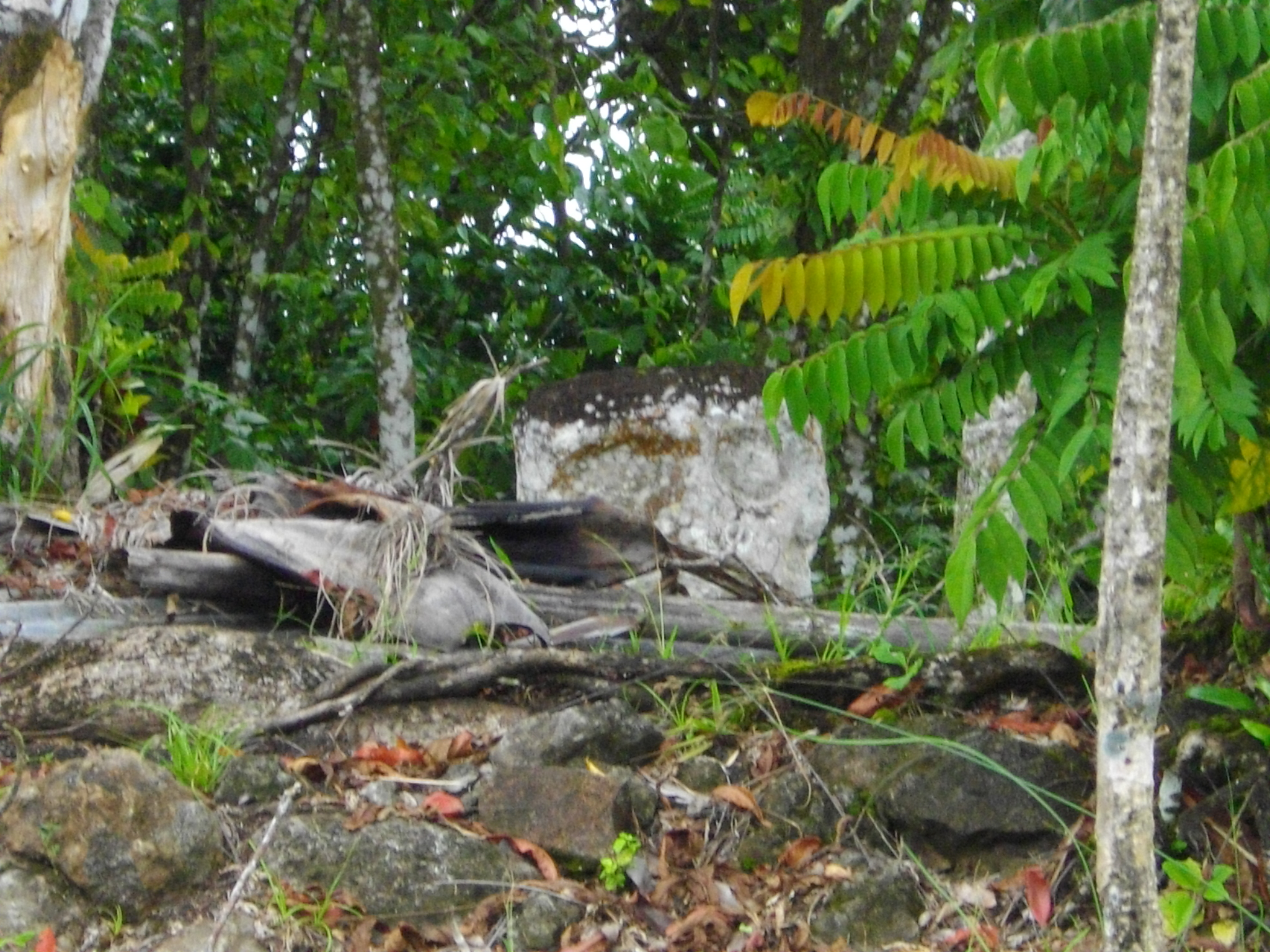 Palauan Stone Face in Aimeliik